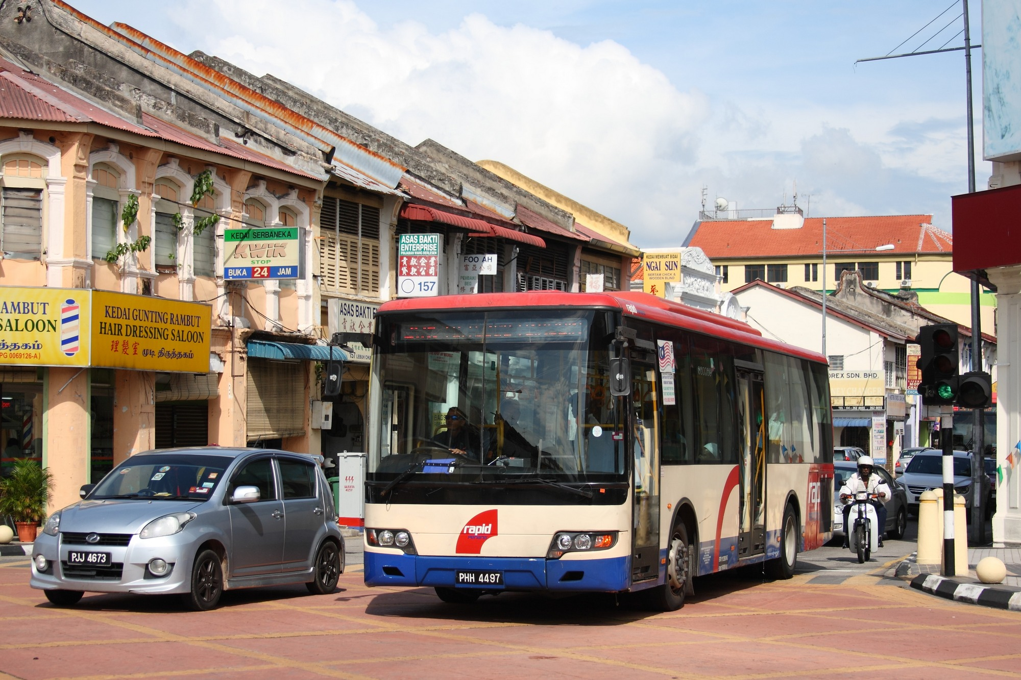 A Higer XLQ6118 bus operated by RapidPenang in Penang, Malaysia.